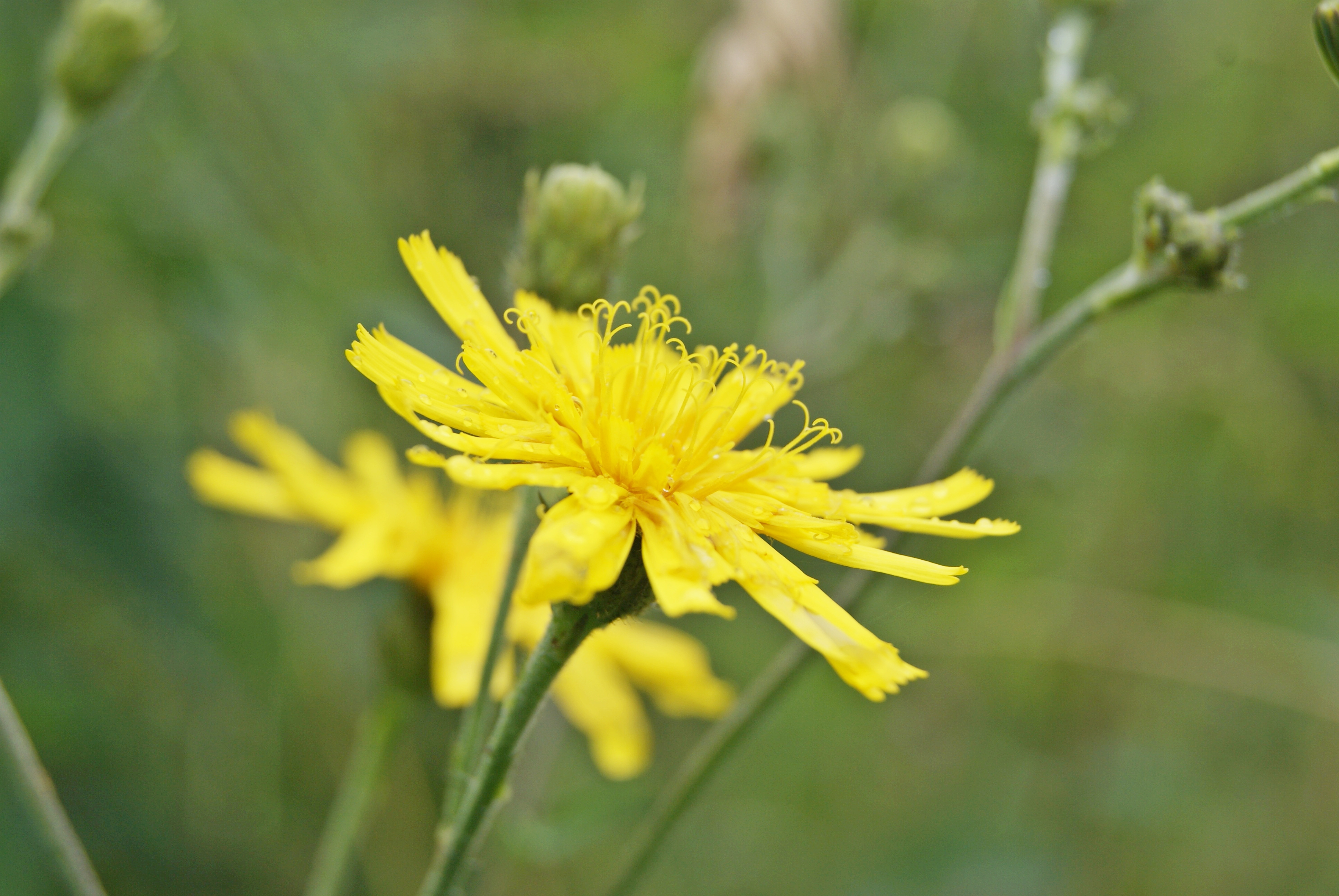 Hieracium laevigatum, Germany.